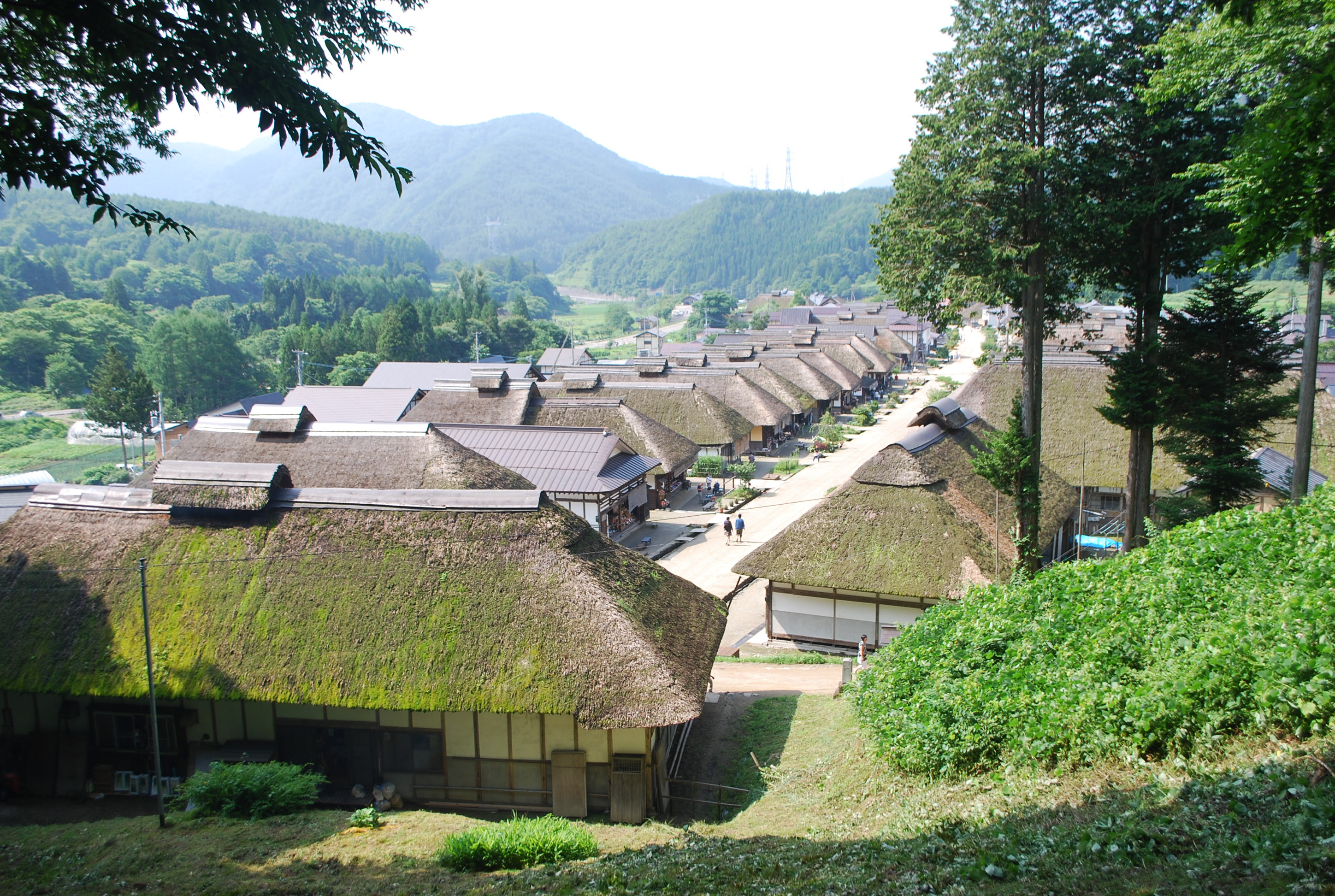 Historic landscape of Ouchi village,Shimogo-town,Japan